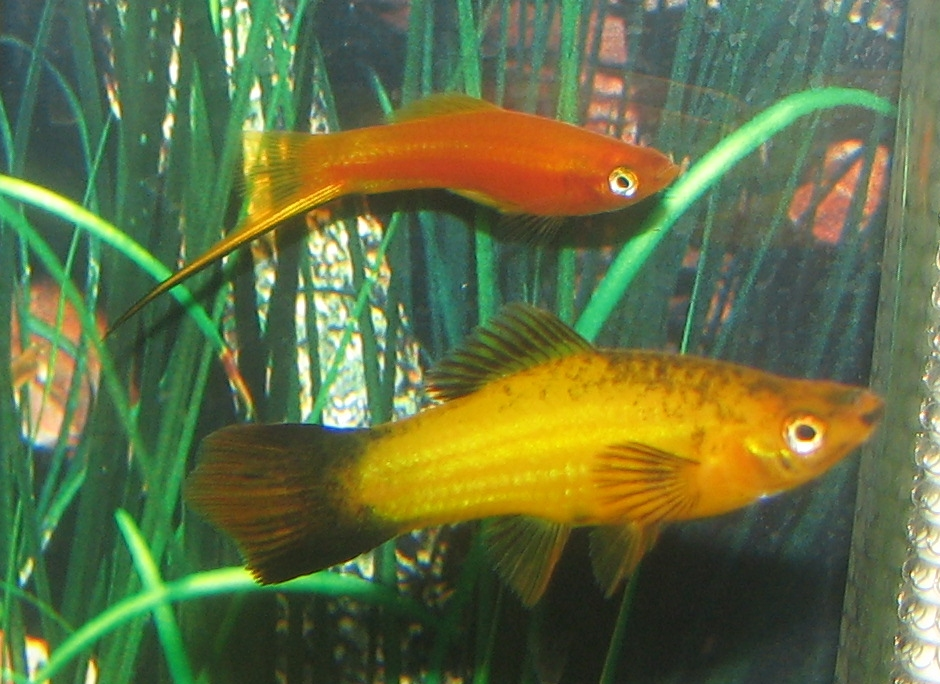 Red Swortail Male with a Pineapple Wagtail Female (Xiphophorus helleri)